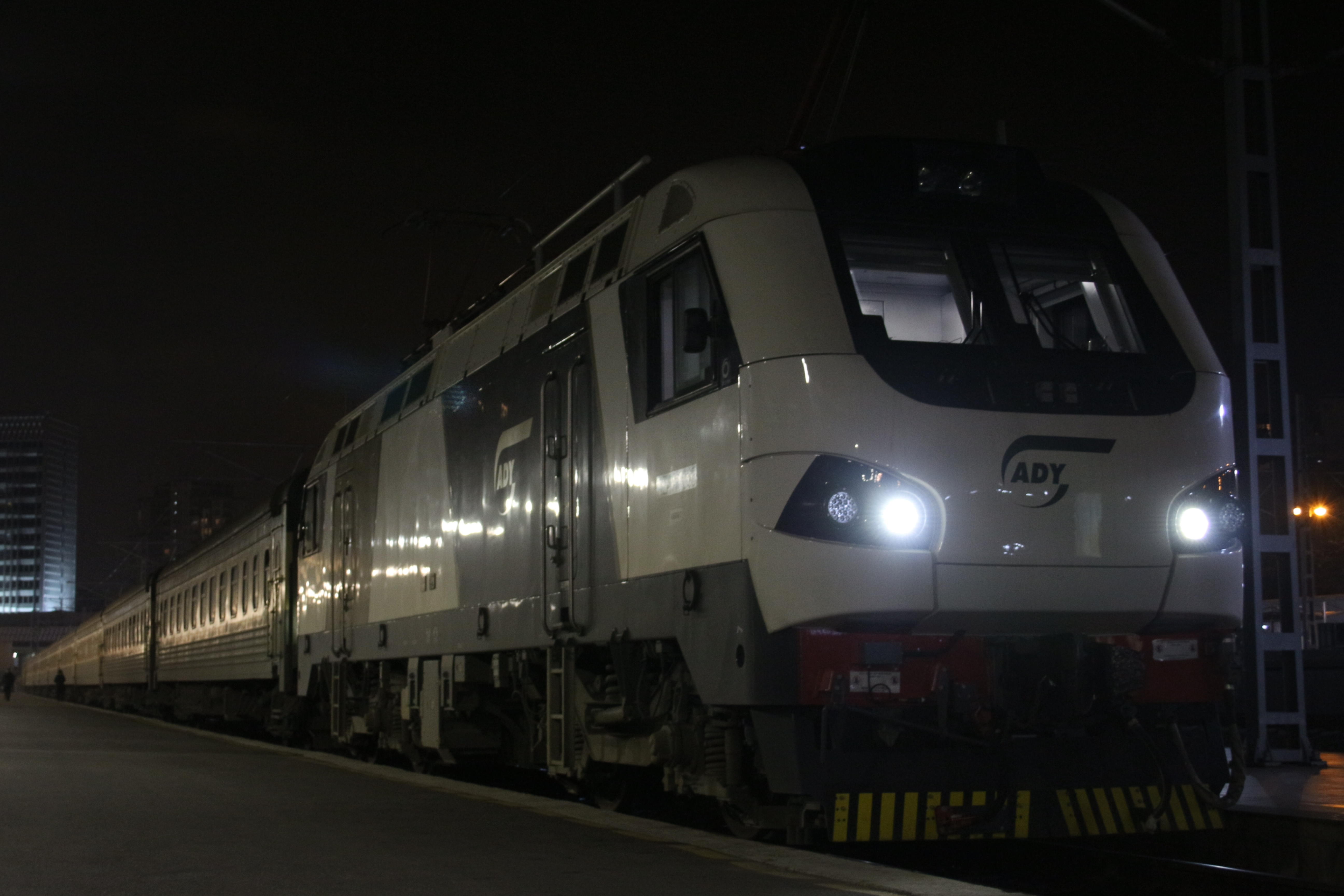 An ADY AZ4A electric locomotive at Baku station. This locomotive (number AZ4A-0003) is part of the Alstom Prima family, and was about to work the sleeper train to Tbilisi, Georgia.